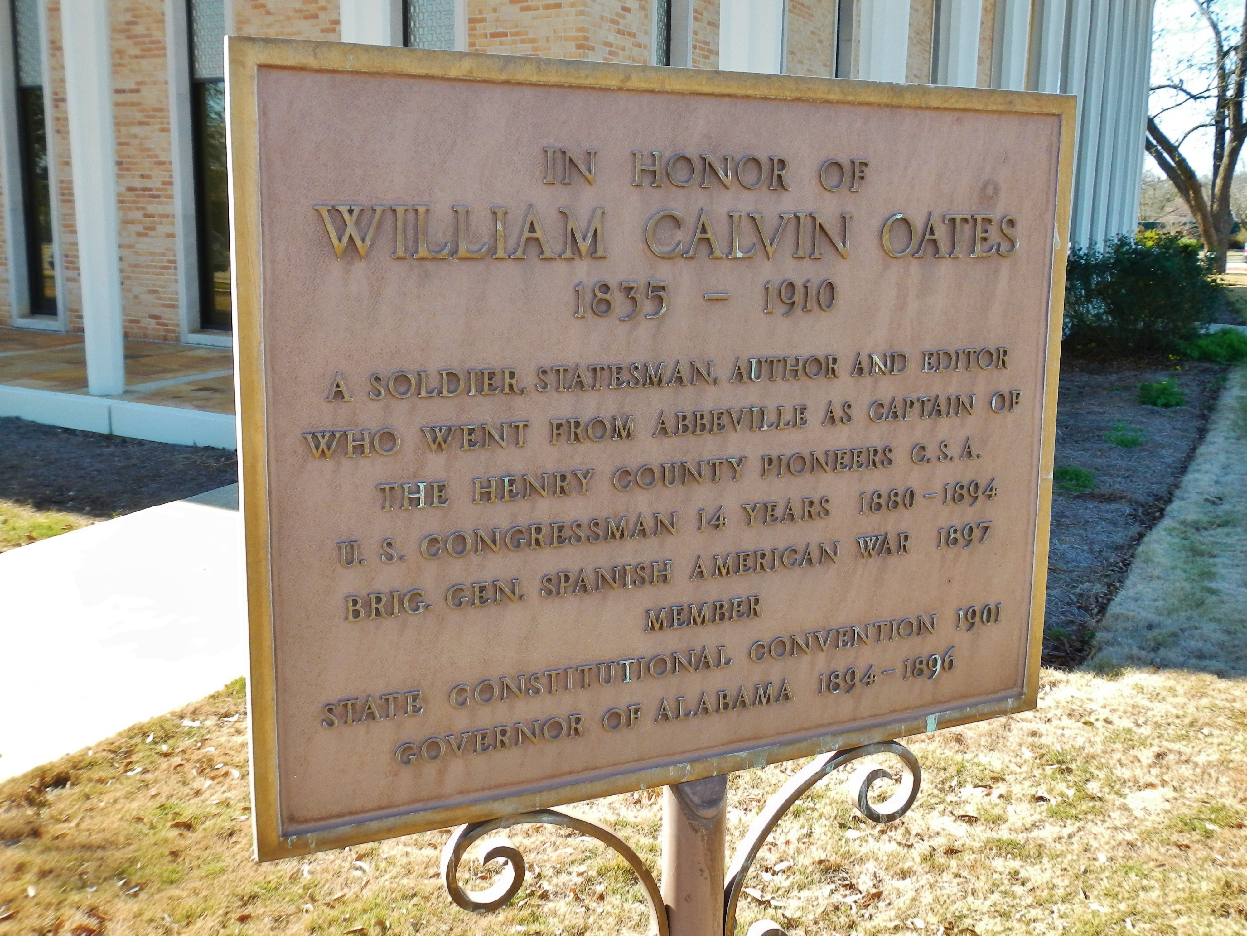 This is a photograph of a historic marker honoring Alabama statesman William Calvin Oates in Abbeville, Alabama.